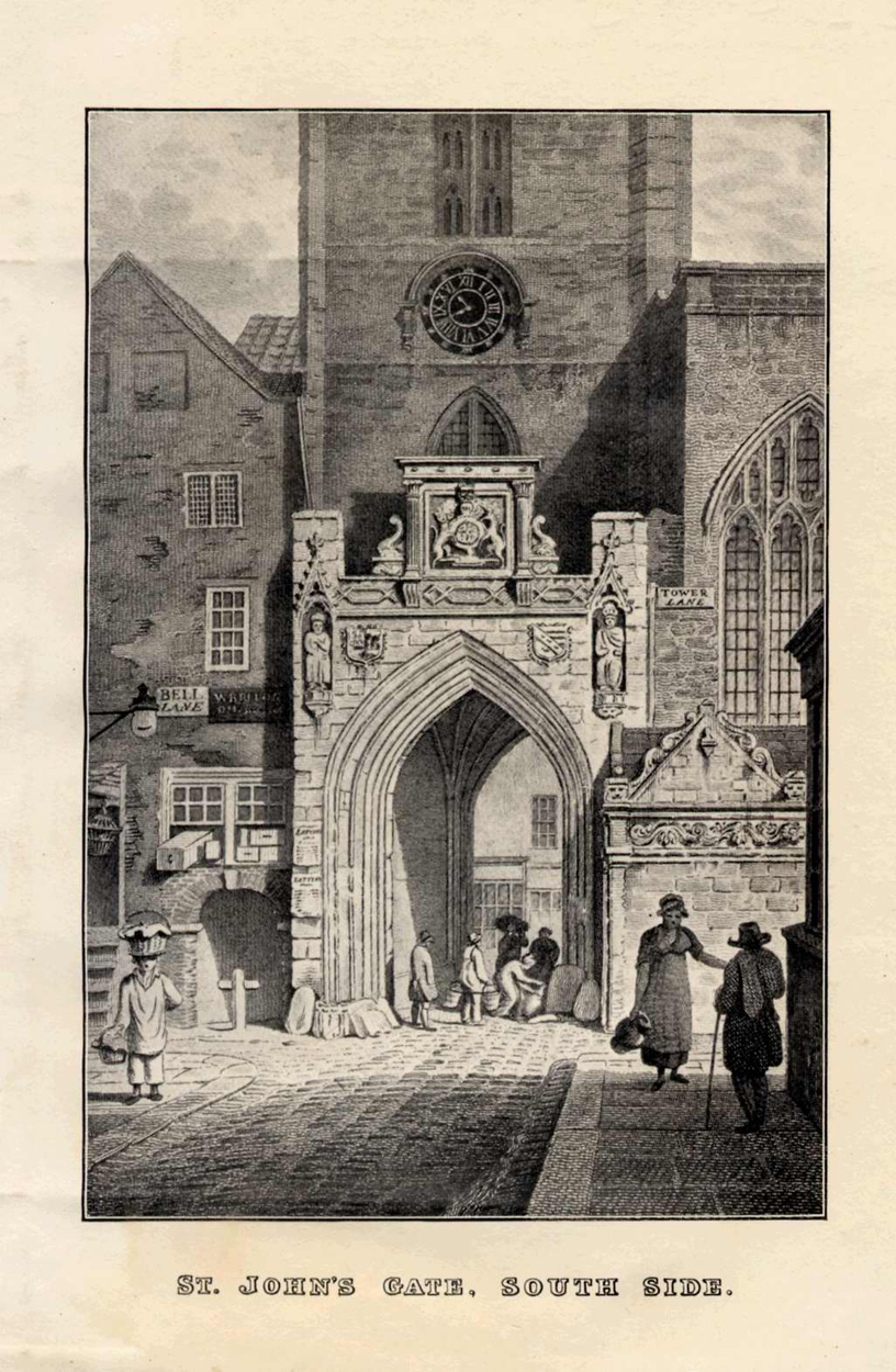 Printed line engraving from 1816 showing the south view of the old city gate of Bristol, UK, with the Church of St John the Baptist, Bristol tower above it, and Nave built into the city walls. The engraving shows historic buildings around the church which are no longer standing, and eight figures walking through the gate in 19th century costume. On the right of the picture can be seen the building abutting the church which held the St John's Conduit on the east side of the building on Broad Street. The conduit today is on the west side within the old city walls on Quay Street.